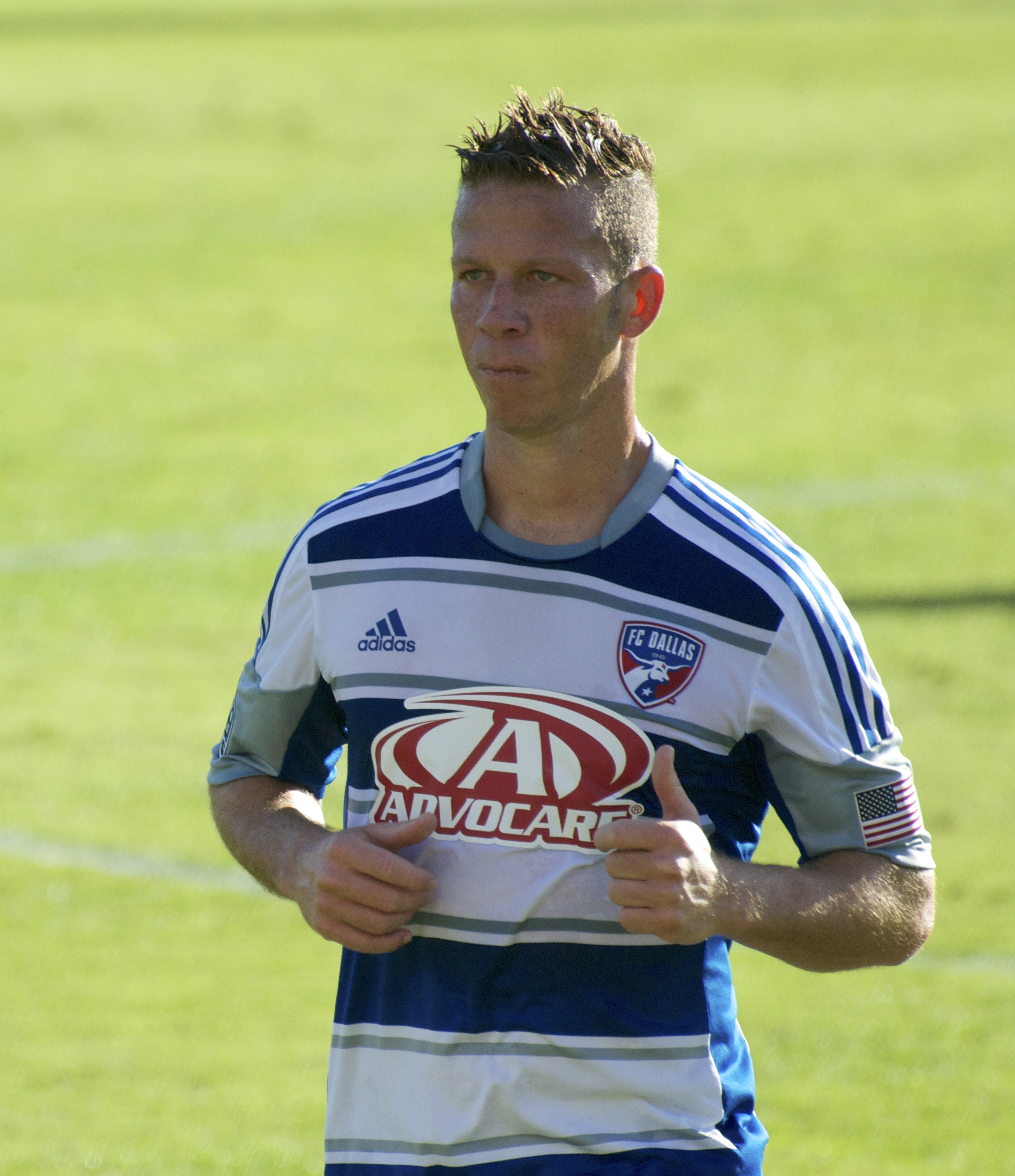 Michel, FC Dallas, Buck Shaw Stadium, 26 October 2013.